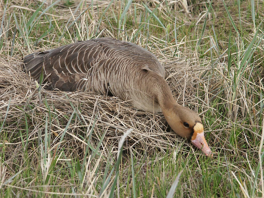 Greater White-fronted Goose (Anser albifrons albifrons) on nest